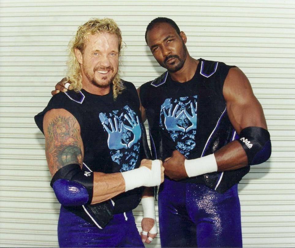 Diamond Dallas Page and his one-time tag team partner Karl Malone in 1998.